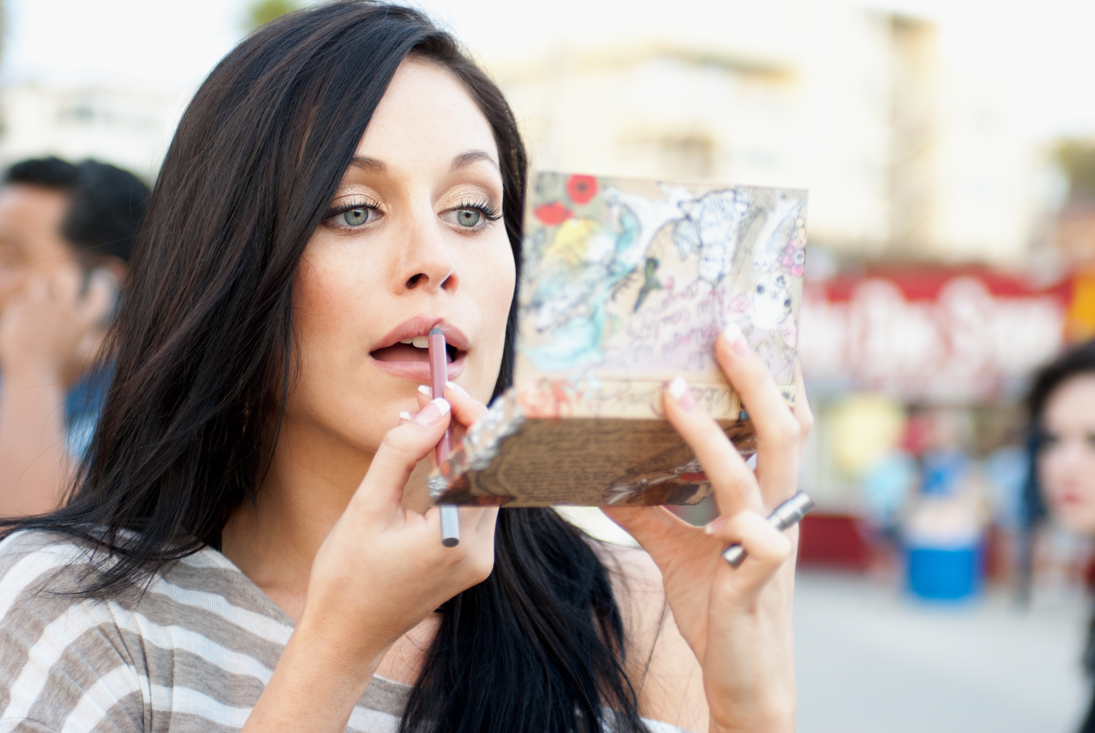 Female cosmetics use.